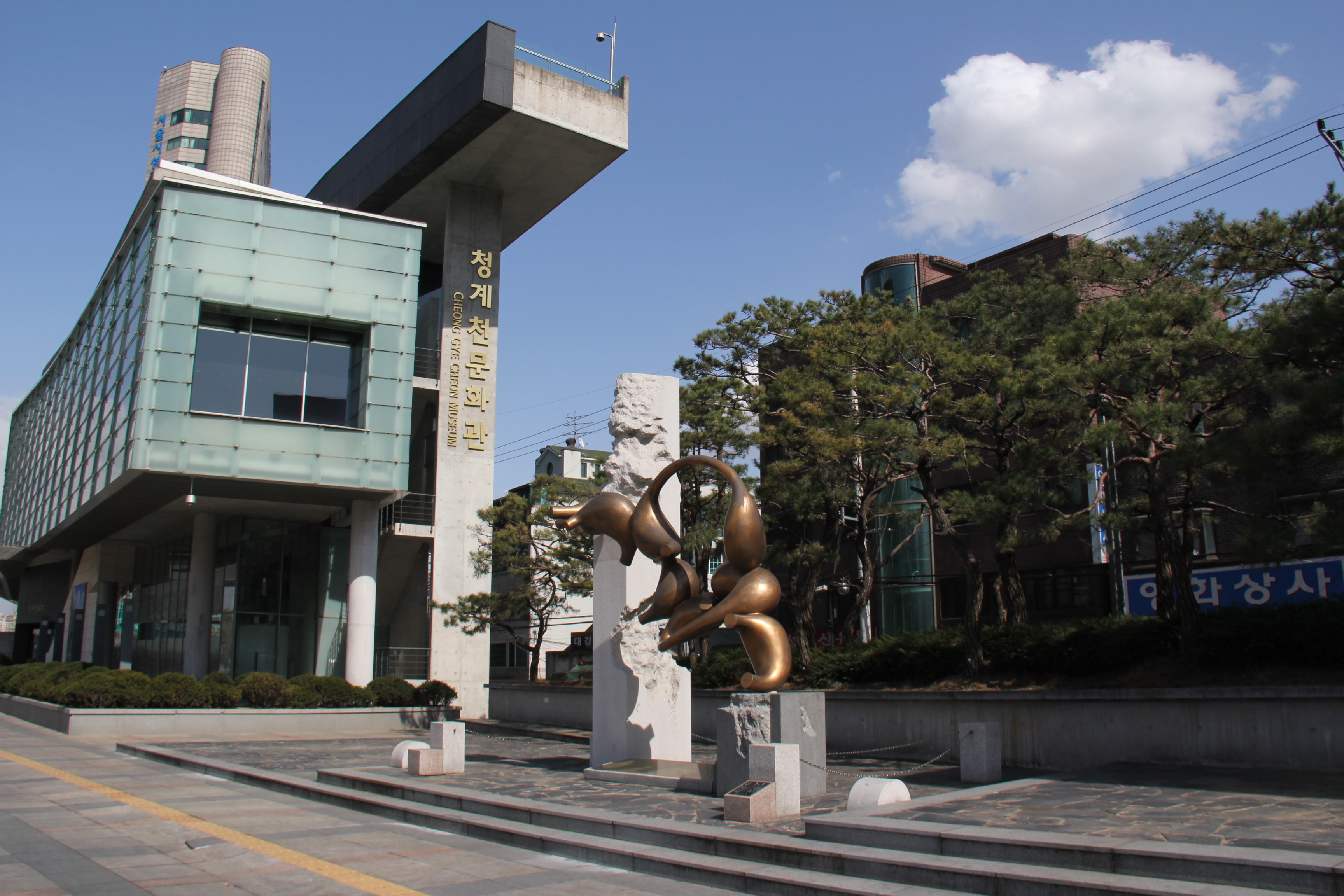 Cheonggyecheon (stream) in Seoul